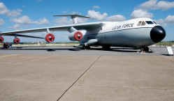 The first C-141A Starlifter built; on display at the AMC Museum in Dover, Delaware.